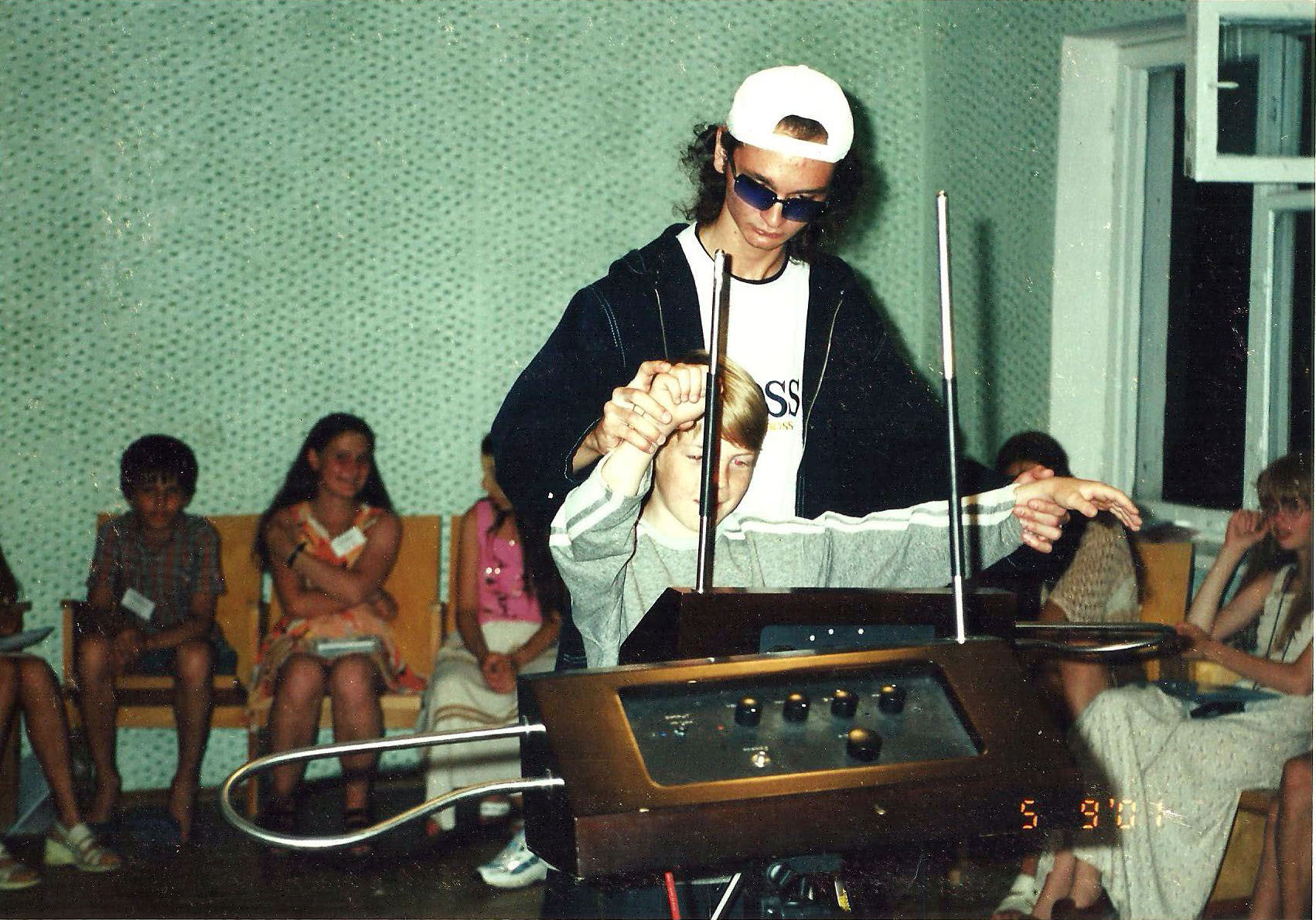 Theremin performer Anton Kershenko and his young pupil Vania.